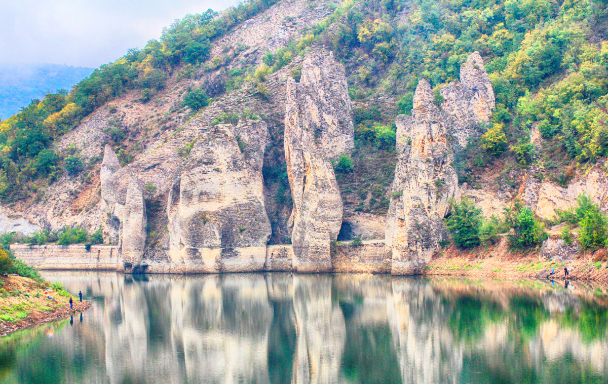 Wonderful Rocks